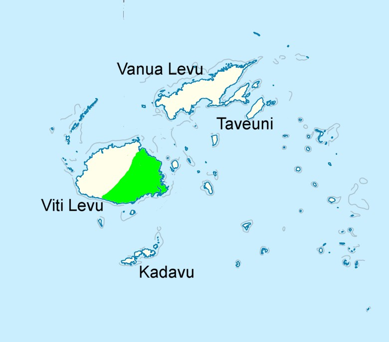 Distribution map of Erythrura kleinschmidti based on BirdLife International Species factsheet: Erythrura kleinschmidti. BirdLife International. Retrieved on 11 March 2011.